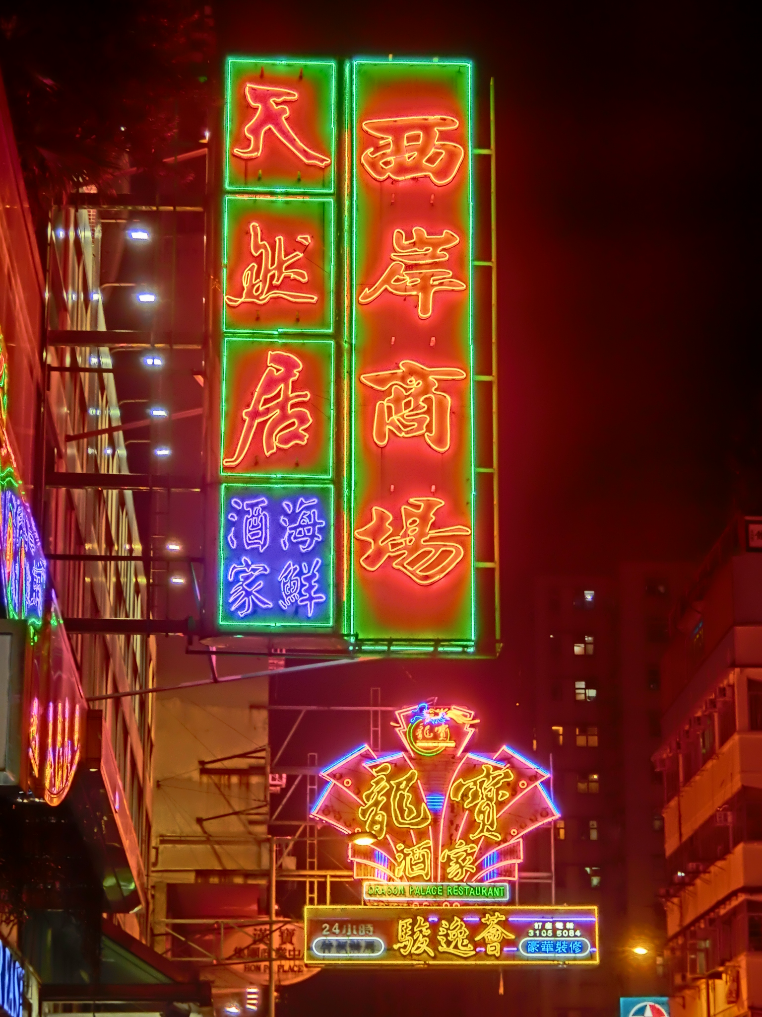 Un Chau Street, 元州街, Night in Sham Shui Po District, Hong Kong